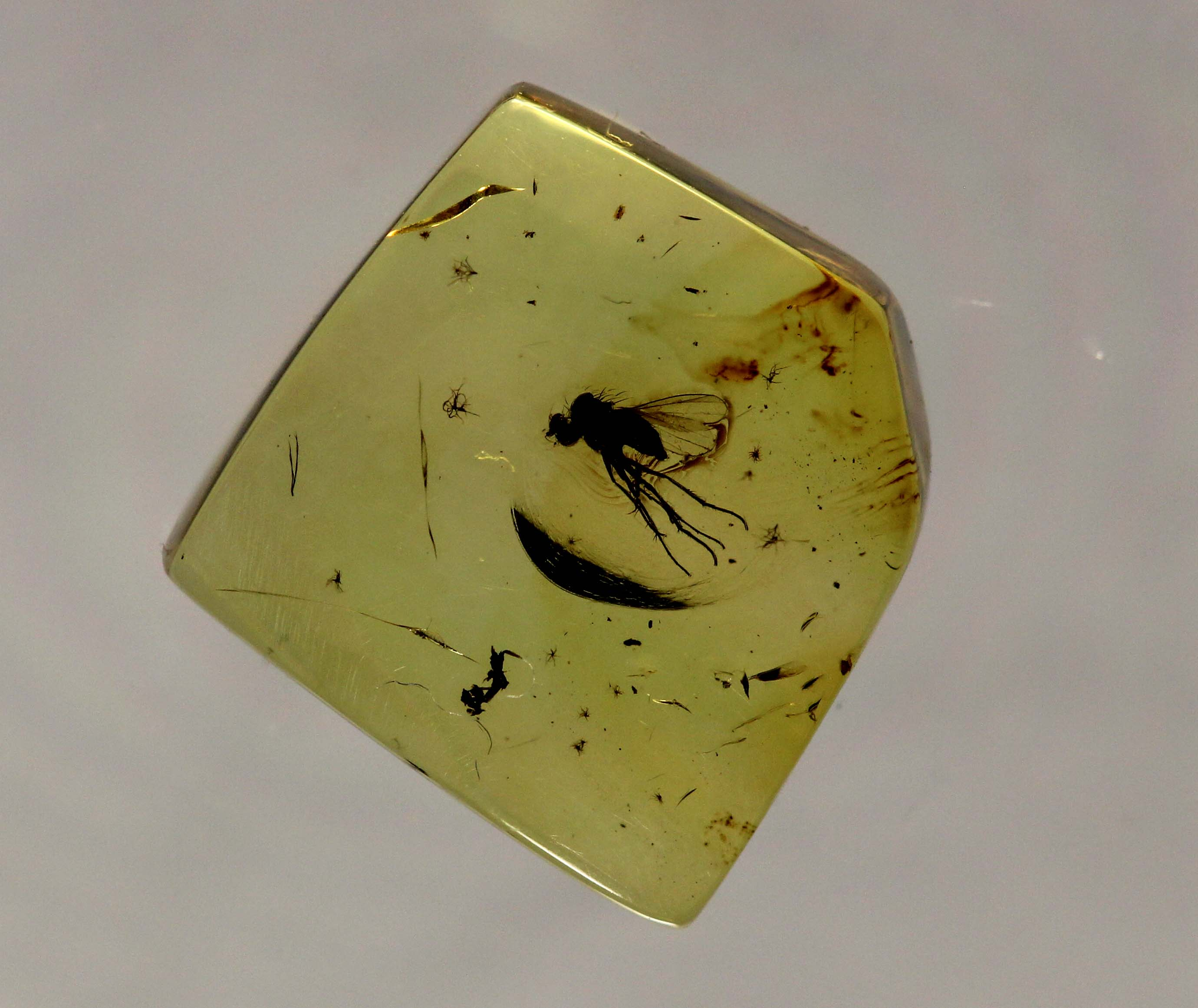 Fossil insect in Baltic amber. Diptera, Brachycera. Lower Eocene, 50 million years old.